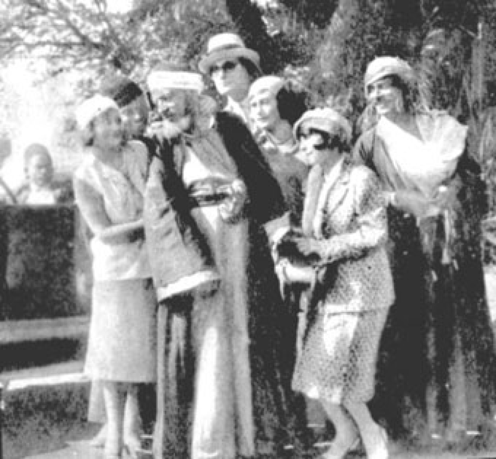 A shot from "Hawadith Kishkish bey" (The Misfortunes of Kishkish bey) Movie, in which Naguib el-Rihani is shown surrounded by some ladies. This movie was released in 1934.